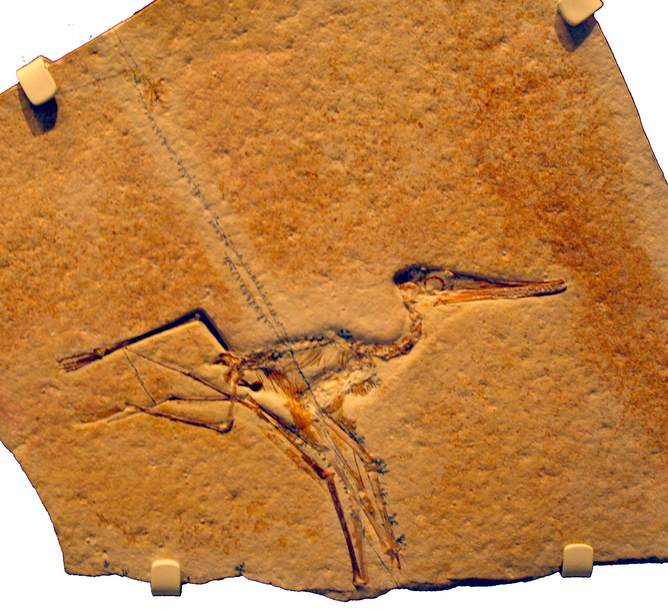 Ctenochasma elegans (formerly Pterodactylus elegans) on display at the Royal Ontario Museum, Toronto.